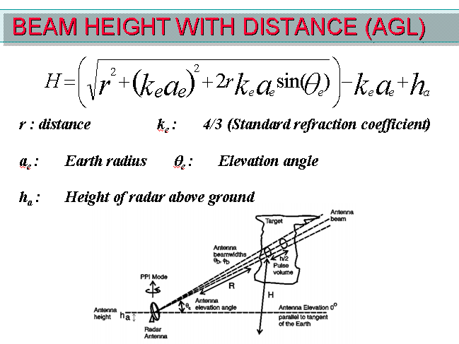 Calculation of height above ground of a radar beam.